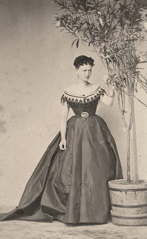 Portrait. Private owner: N S-H. The Theater archive, University of Bergen.